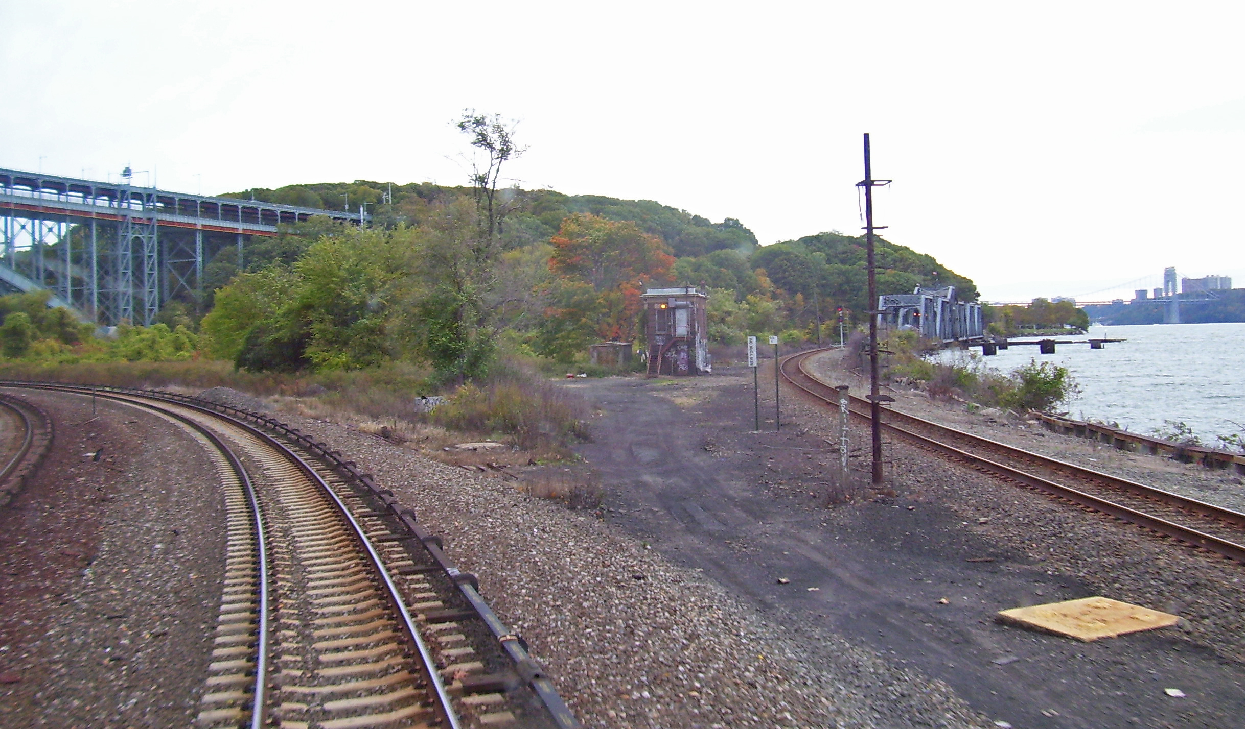 Split between Metro-North Hudson Line (left, with third rail) and West Side Line carrying Amtrak traffic to Penn Station, at the junction of the Hudson River and Harlem River Ship Canal, seen from the front window of an M3 traveling southbound on the Hudson Line. On December 1, 2013, a southbound Metro-North train derailed on the left track.